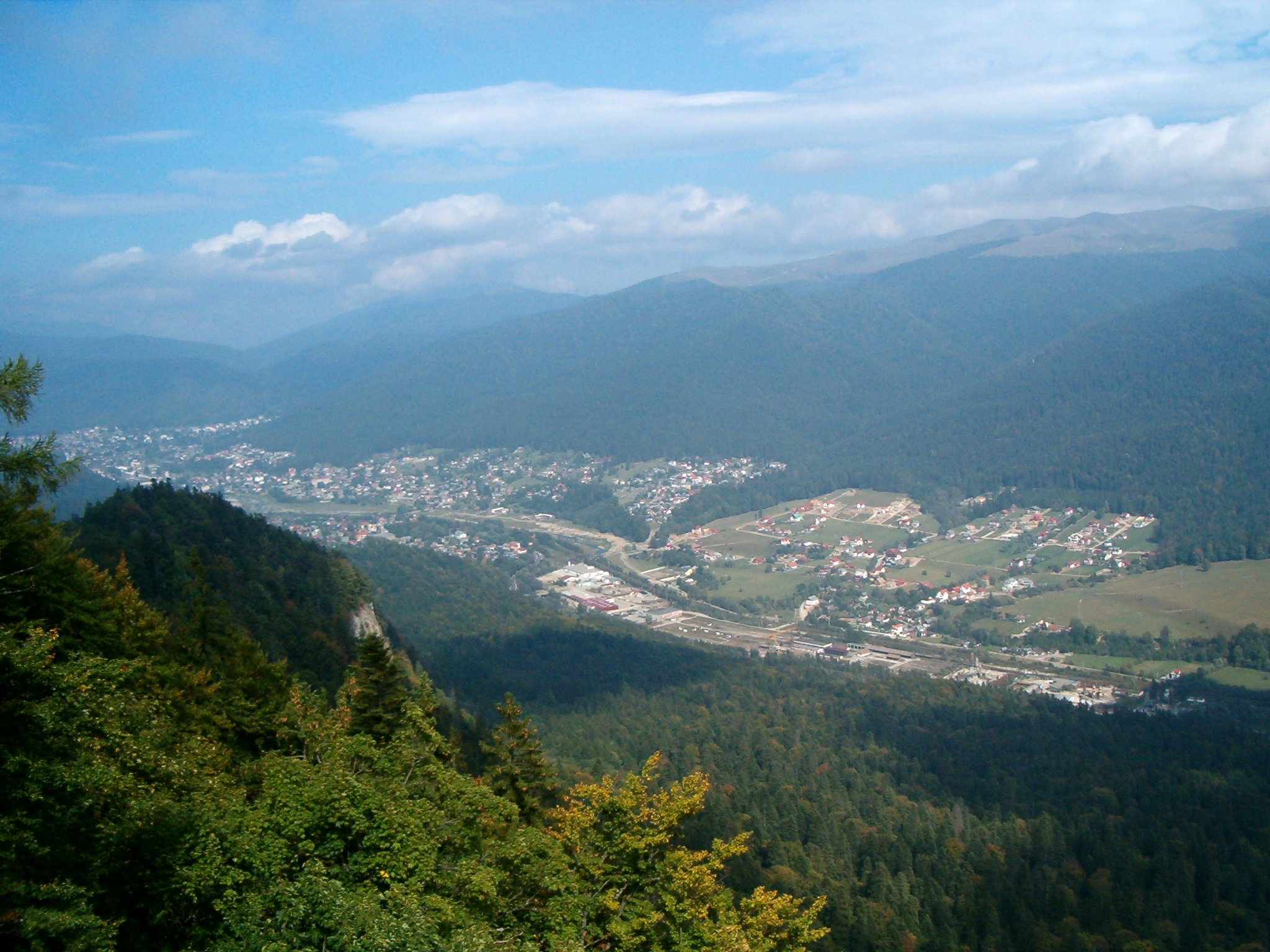 The Prahova valley seen fron the Franz Joseph Cliff